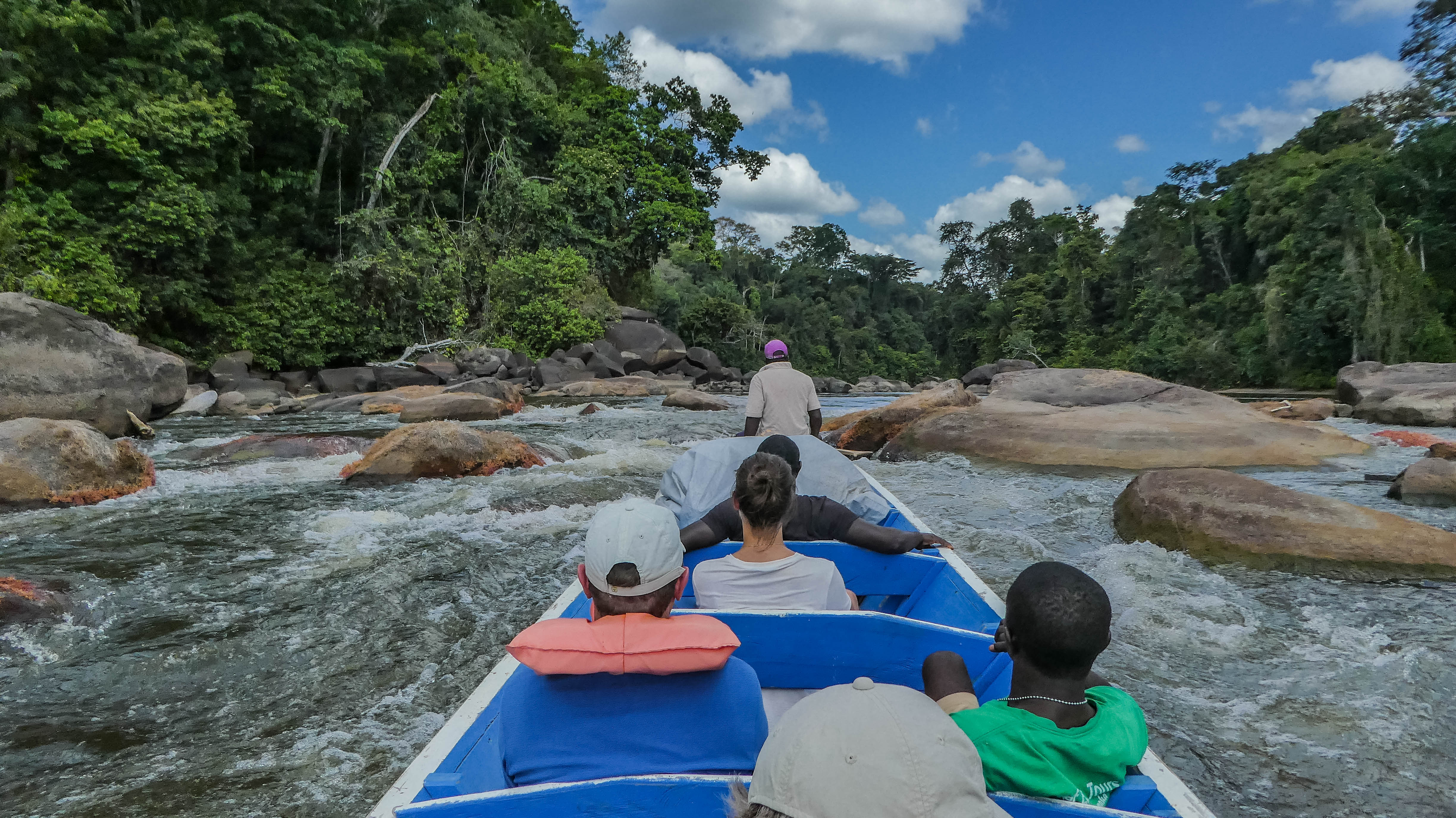 Navigating through the rapids in the Upper-Suriname River